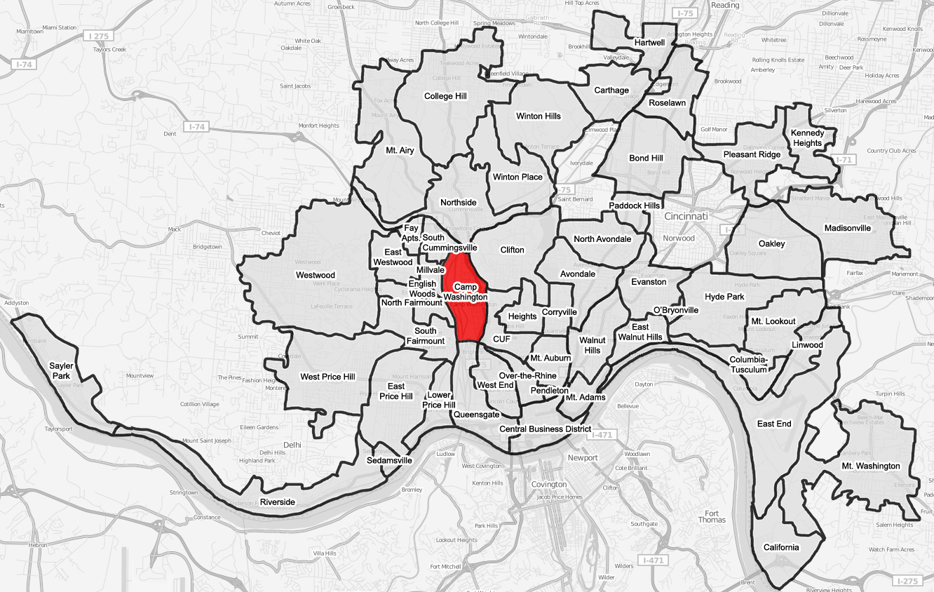 A map of the neighborhood of Camp Washington within Cincinnati, Ohio. Neighborhood lines are based on information from This street map is derived from a free map.